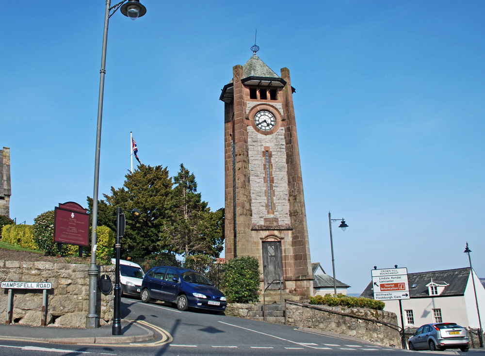 Church Hill, Grange over Sands, near to Grange-Over-Sands, Cumbria, Great Britain. At its junction with Hampsfell Road.